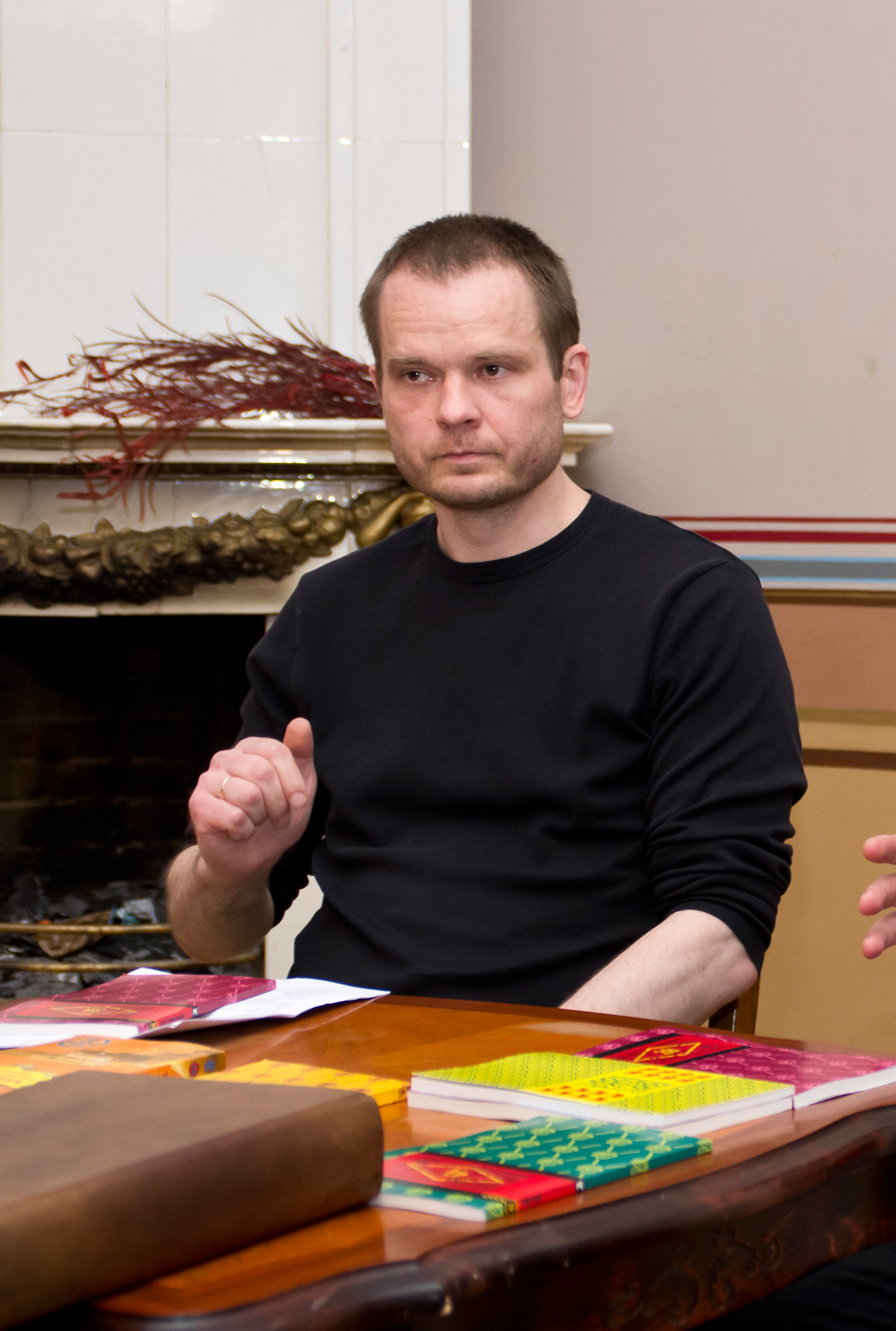 Jüri Kolk Tartu kirjanike majas 23. aprillil 2013